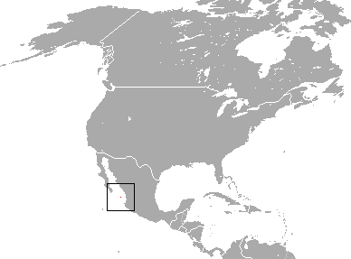 Tres Marias Cottontail (Sylvilagus graysoni) range